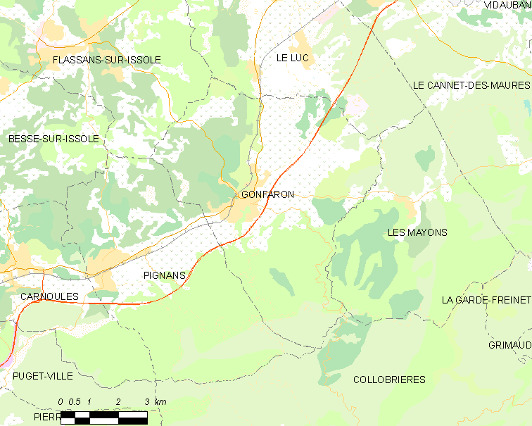 Map of French municipality Gonfaron